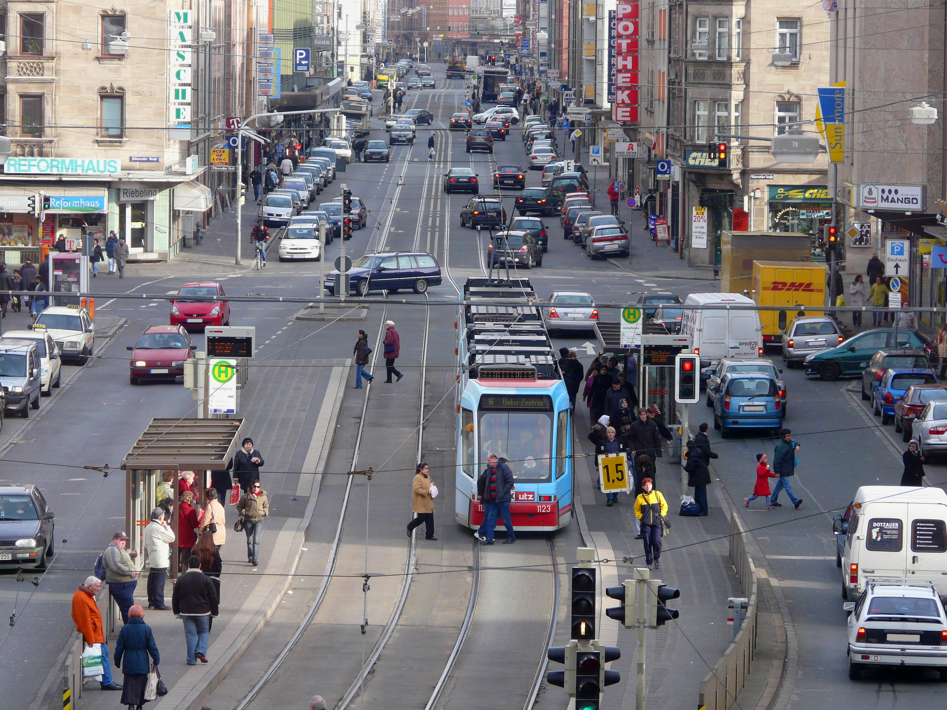 Tram vehicle in Nuremberg, Germany